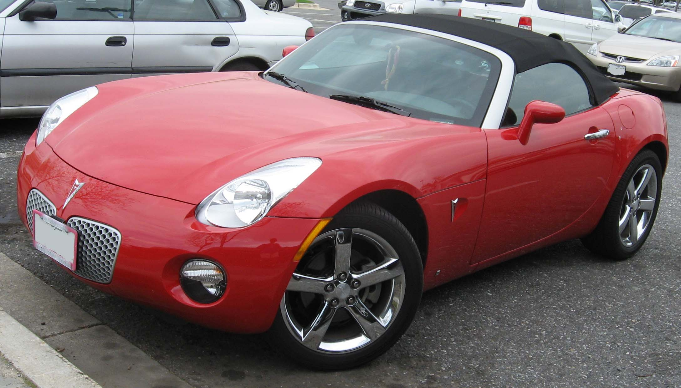 2006-2007 Pontiac Solstice photographed in USA.